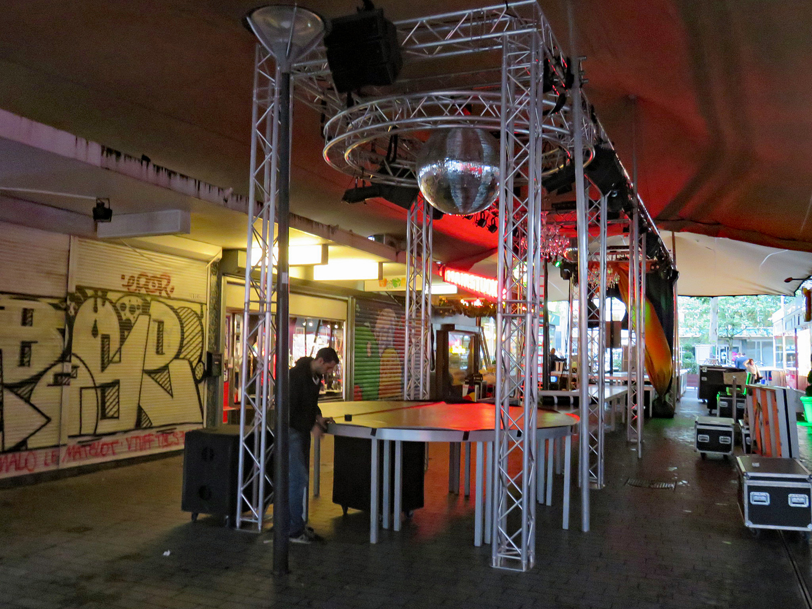 Preparations for the street party called Keerweer Parade, which is held in the Keerweer street in Rotterdam to celebrate Rotterdam Pride 2019.